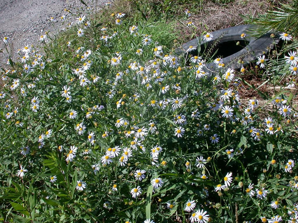 Name Aster yomena (Kitam.) Honda （ヨメナ） Family Asteraceae Date;2006,10;Tanabe city, Wakayama prefecture, Japan Author;Keisotyo